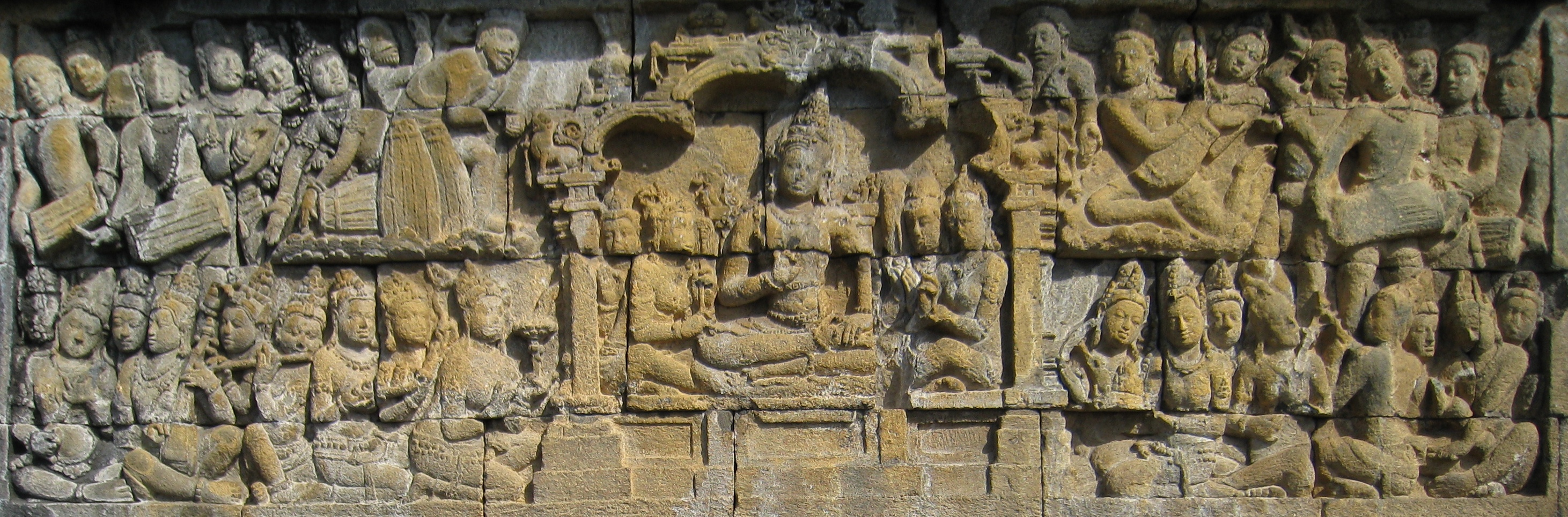 Lalitavistara, Bodhisattva in Tusita Heaven